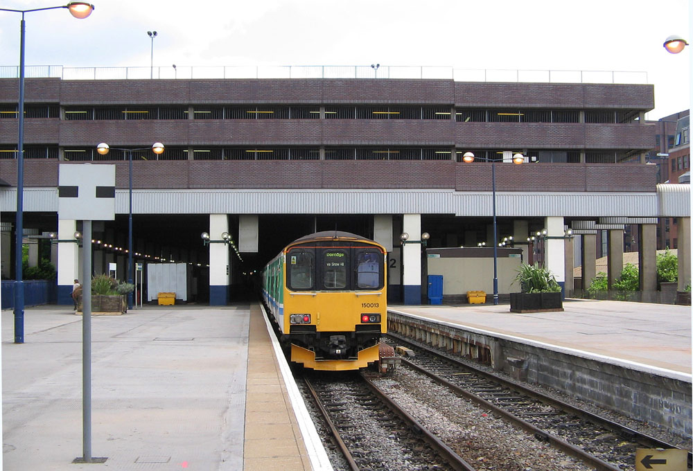 Birmingham Snow Hill station seen from the platform end, looking towards the main structure. A Central Trains Class 150 local service pulls into the platform. Photo by User:G-Man May 2006